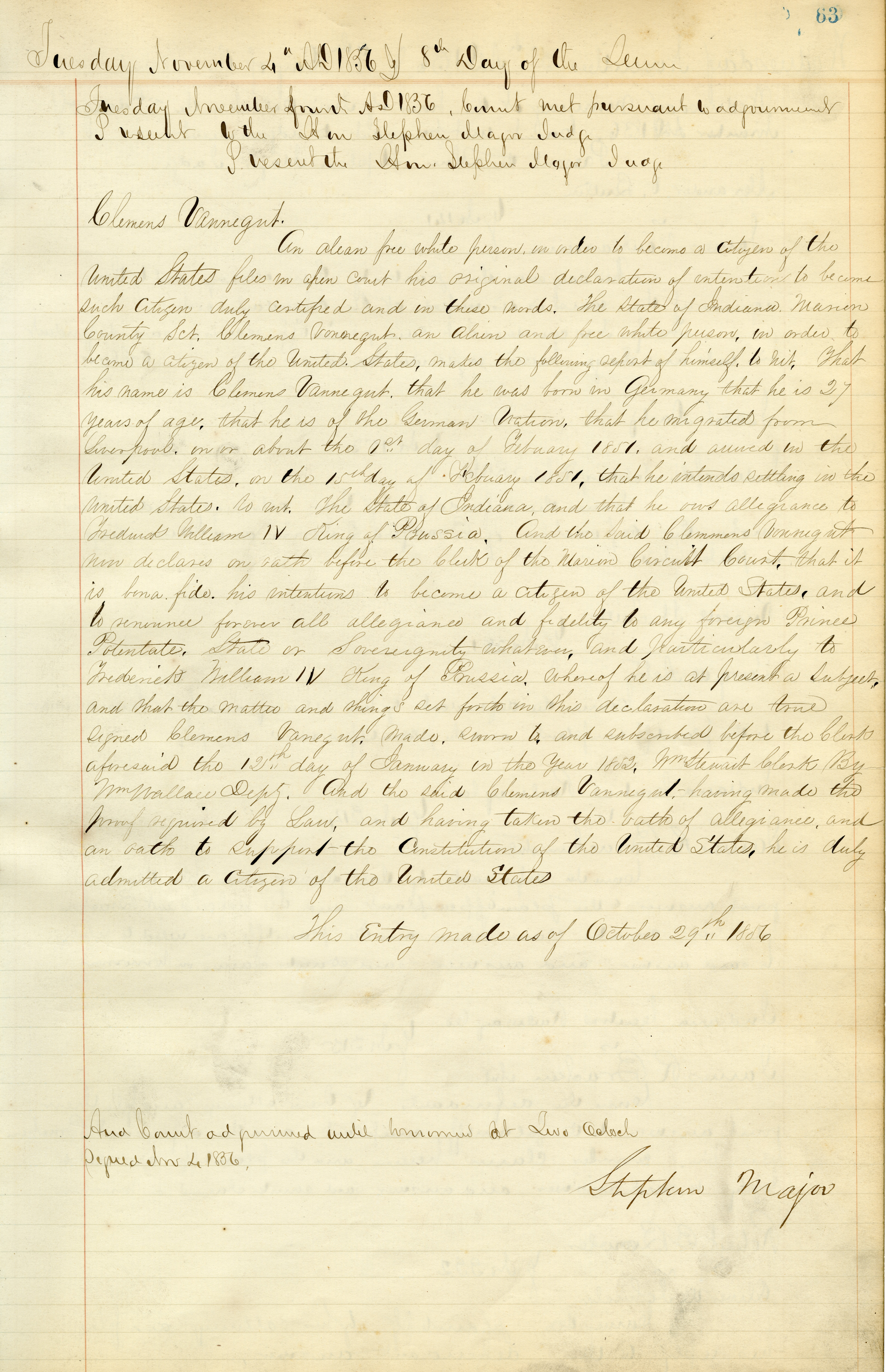 Clemens Vonnegut naturalization order